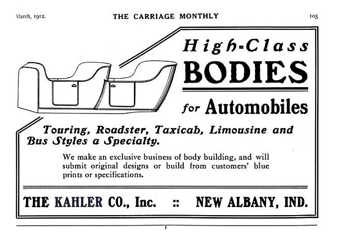 The Kahler Co. Auto Body Advertisement - b/w magazine ad